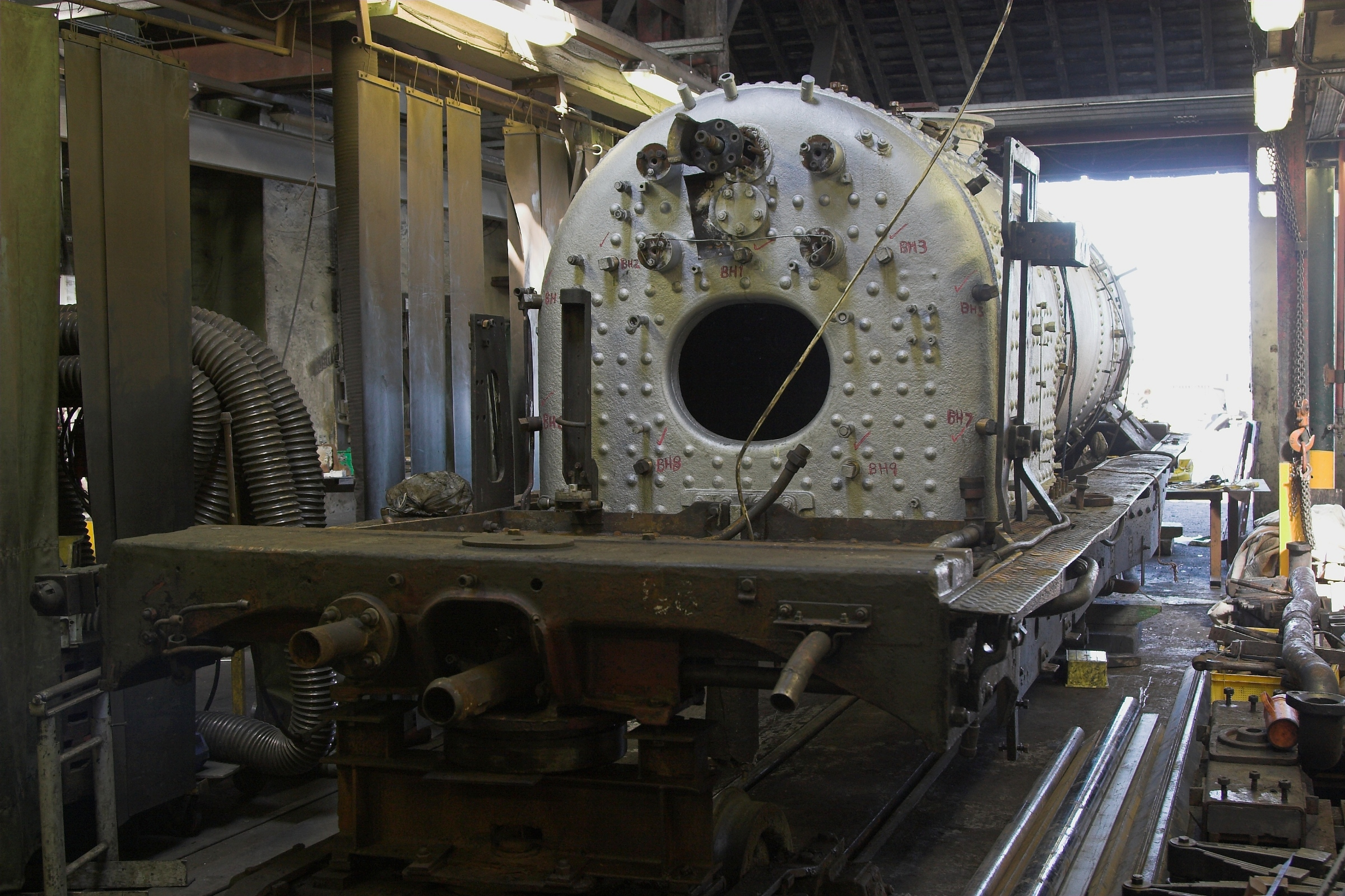 Boiler unit of Welsh Highland Railway's NGG16 No. 138 in the Ffestiniog Railway's Boston Lodge Workshops.